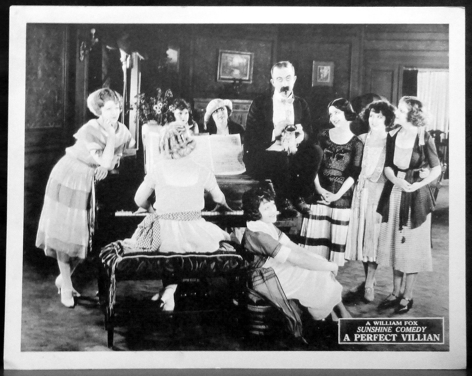 Lobby card for the 1921 film A Perfect Villain.